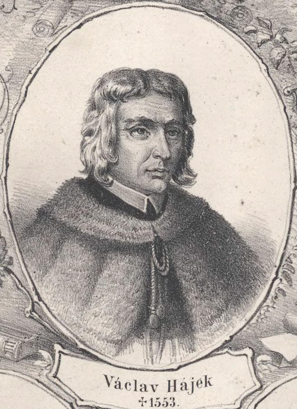 Portrait of Václav Hájek z Libočan (died 1553), Czech historian and record-keeper.